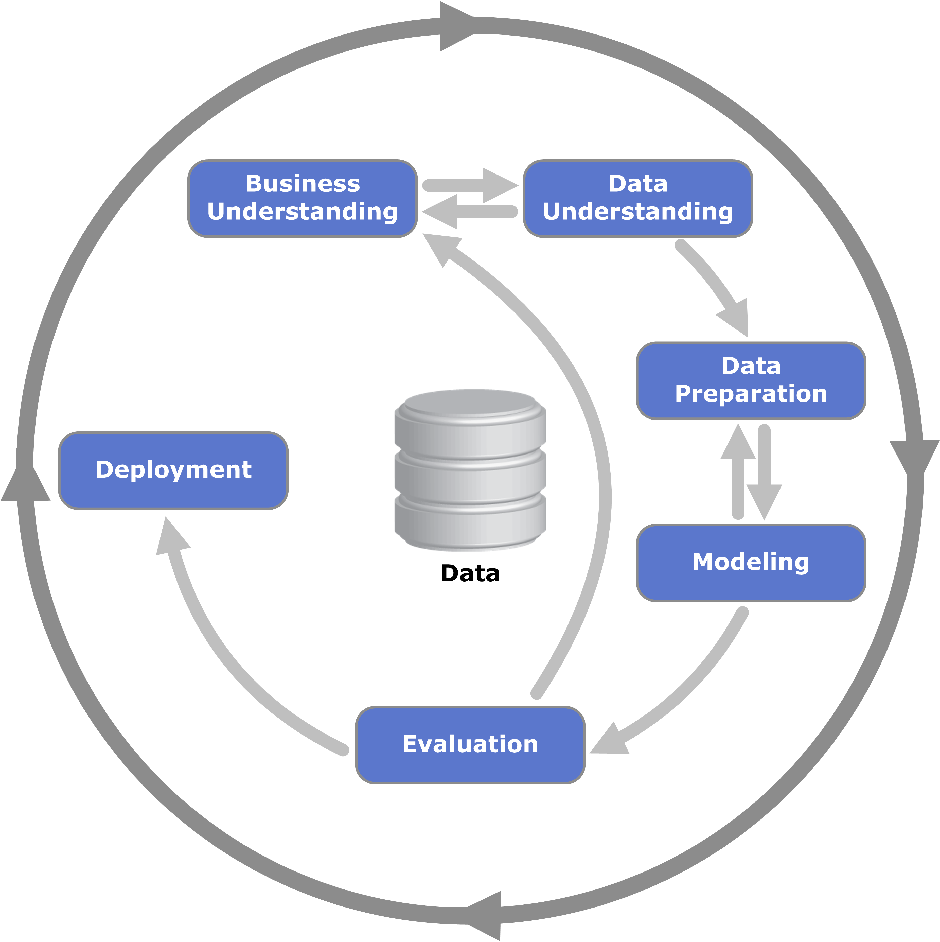 A diagram showing the relationship between the different phases of CRISP-DM and illustrates the recursive nature of a data mining project.